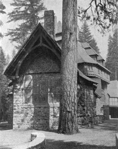 Photograph of the exterior of Wyntoon, as published in Architectural Review in 1904. The building was designed by Bernard Maybeck for his client Phoebe Apperson Hearst, and built along the McCloud River in remote Northern California near Mount Shasta. It burned down in late 1929.